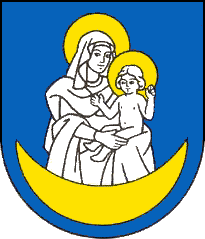 Coat of arms of Trstená, Slovakia